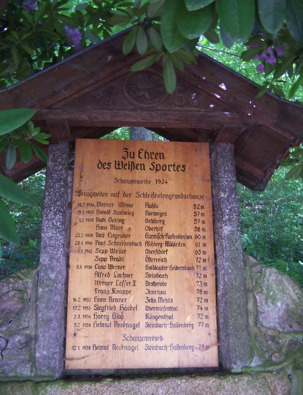 A plate for the ski jumbers in Steinbach, Schleifkothengrund.